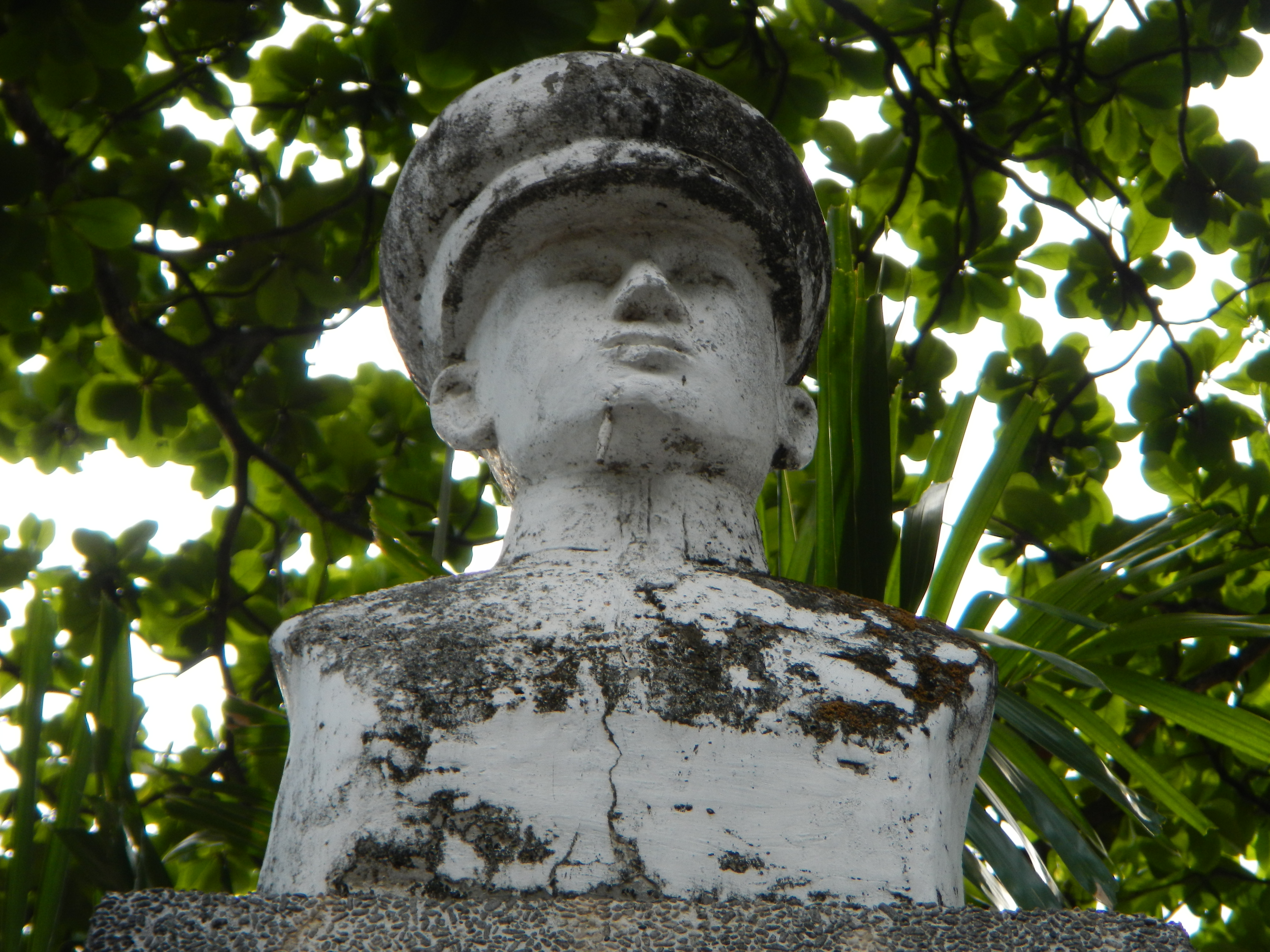 Gen. Francisco Makabulos[1] (monument) Santa Ignacia, Tarlac[2] [3] - Gen Francisco Macabulos - is first provincial governor. Francisco Macabulos y Soliman (September 17, 1871 - April 30, 1922) was a Filipino patriot who led Katipunan revolutionary forces during the Philippine Revolution against Spain in 1896. - [4] [5] Gen. Francisco Macabulos and Sta. Ignacia, Tarlac: The Untold History[6]